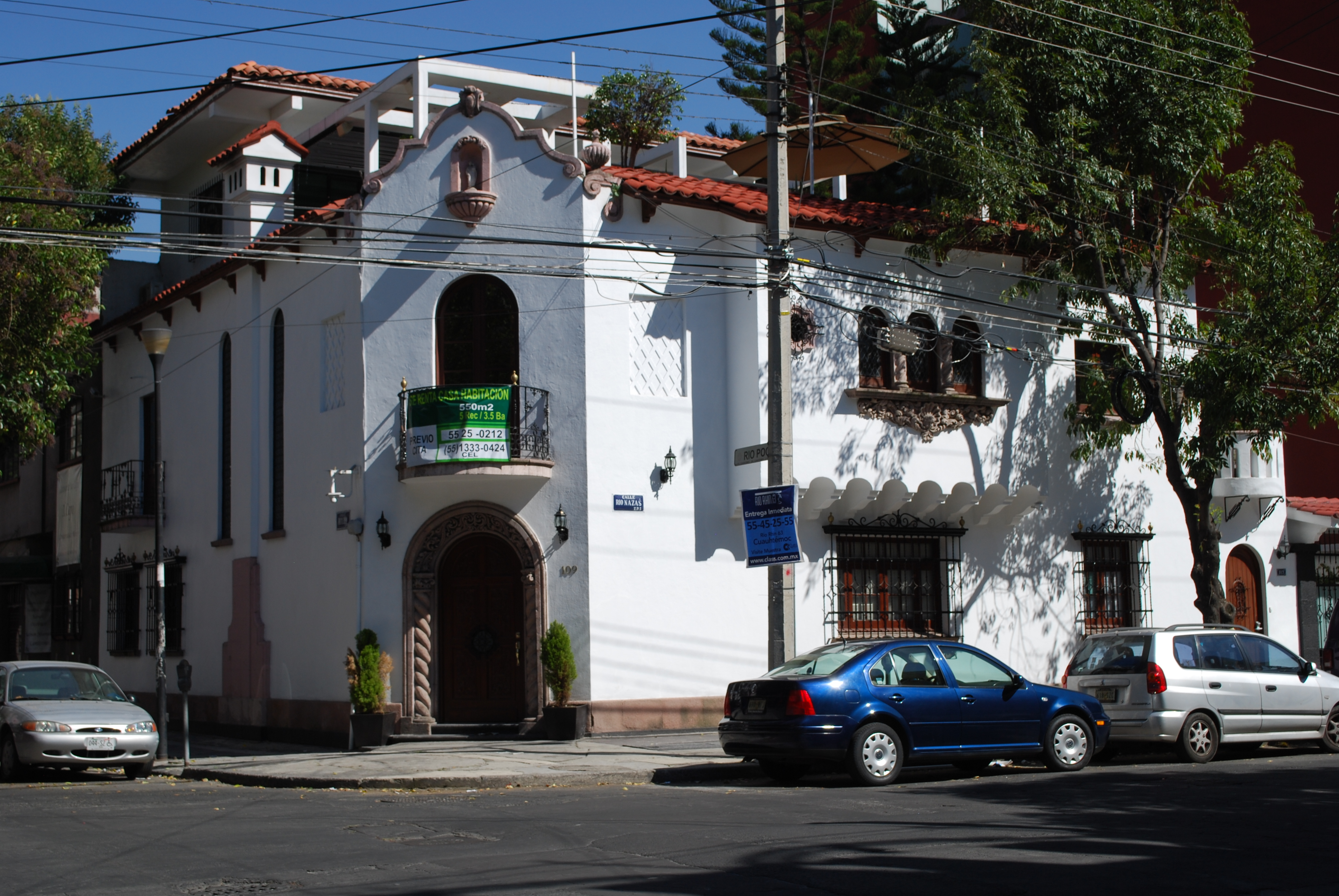 Older house on the corner of Rio Poo and Rio Nazas in Colonia Cuauhtemoc, Mexico City